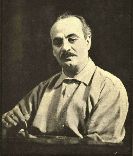 Photograph for Gibran Khalil Gibran.